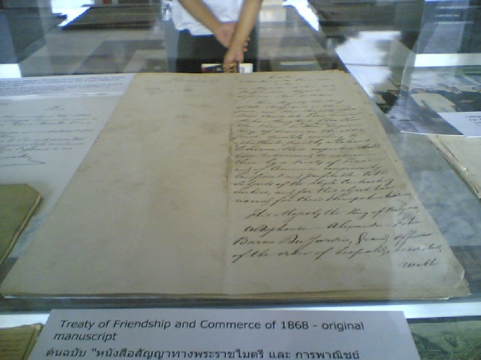 Thai Belgium Treaty of Friendship and Commerce of 1868 - original manuscript